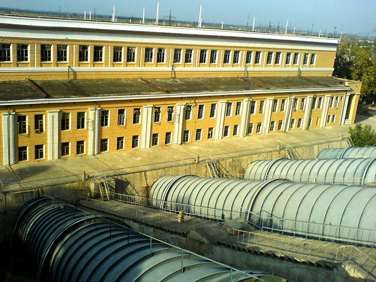 Farhad Dam